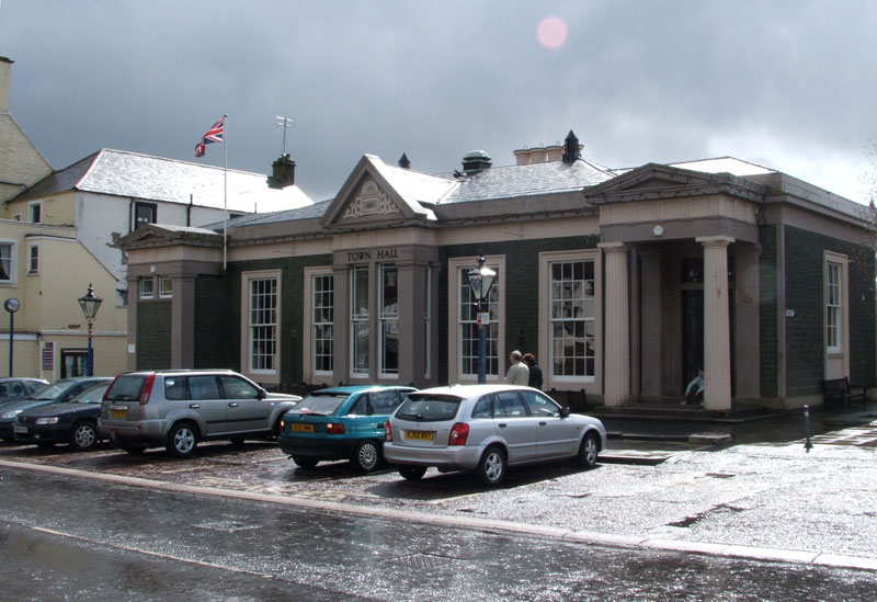 Moffat town hall